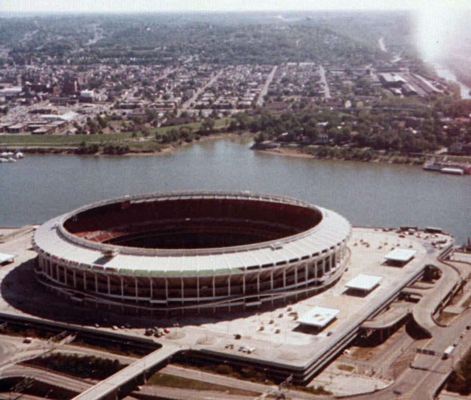 Riverfront Stadium in Cincinnati, Ohio. This is a view of Riverfront Stadium, home of the Cincinnati Reds as seen in 1980. The Roebling Suspension Bridge is barely seen on the right. The Ohio River is in the background. This is taken from the observation deck on the Carew Tower.